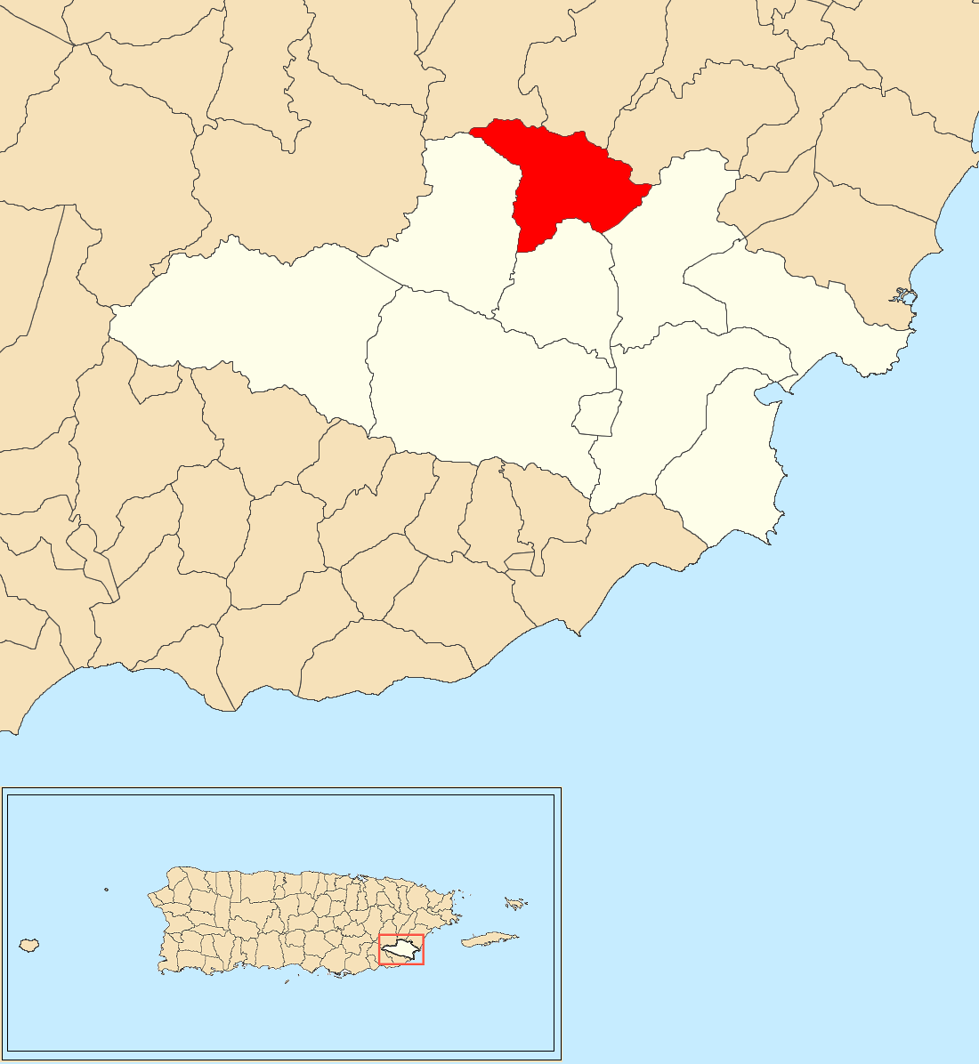 Tejas, Yabucoa, Puerto Rico locator map